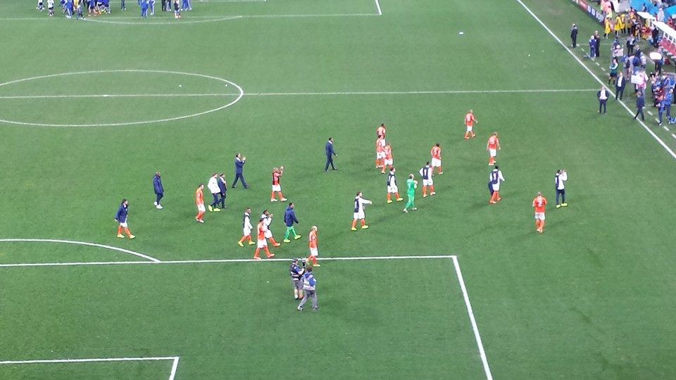 2014 FIFIA World Cup, Semi final, NED-ARG. The Dutch team leaves the field after losing from Argentina